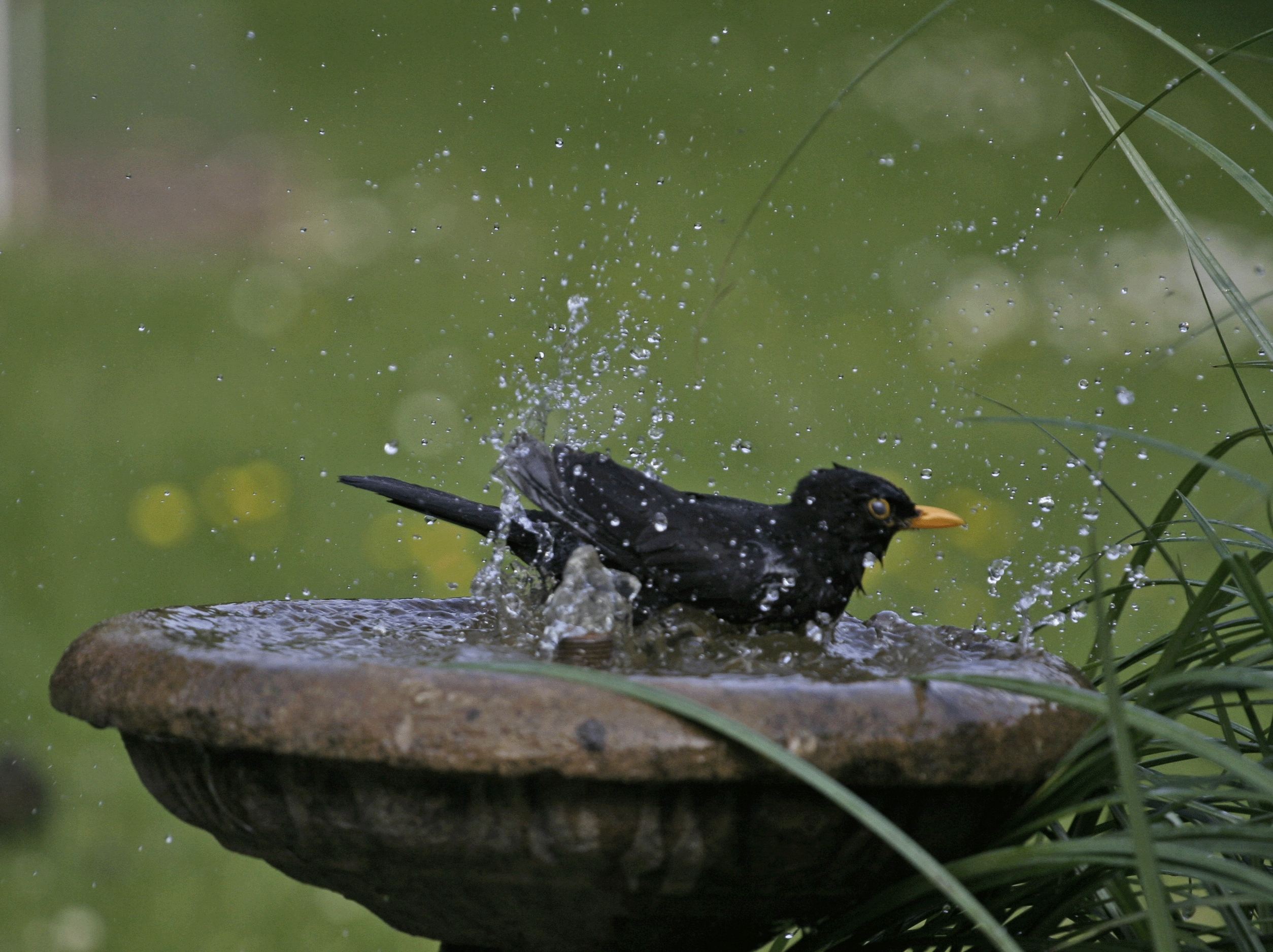 A male Common Blackbird having a bath at Phoenix Garden, London, England.